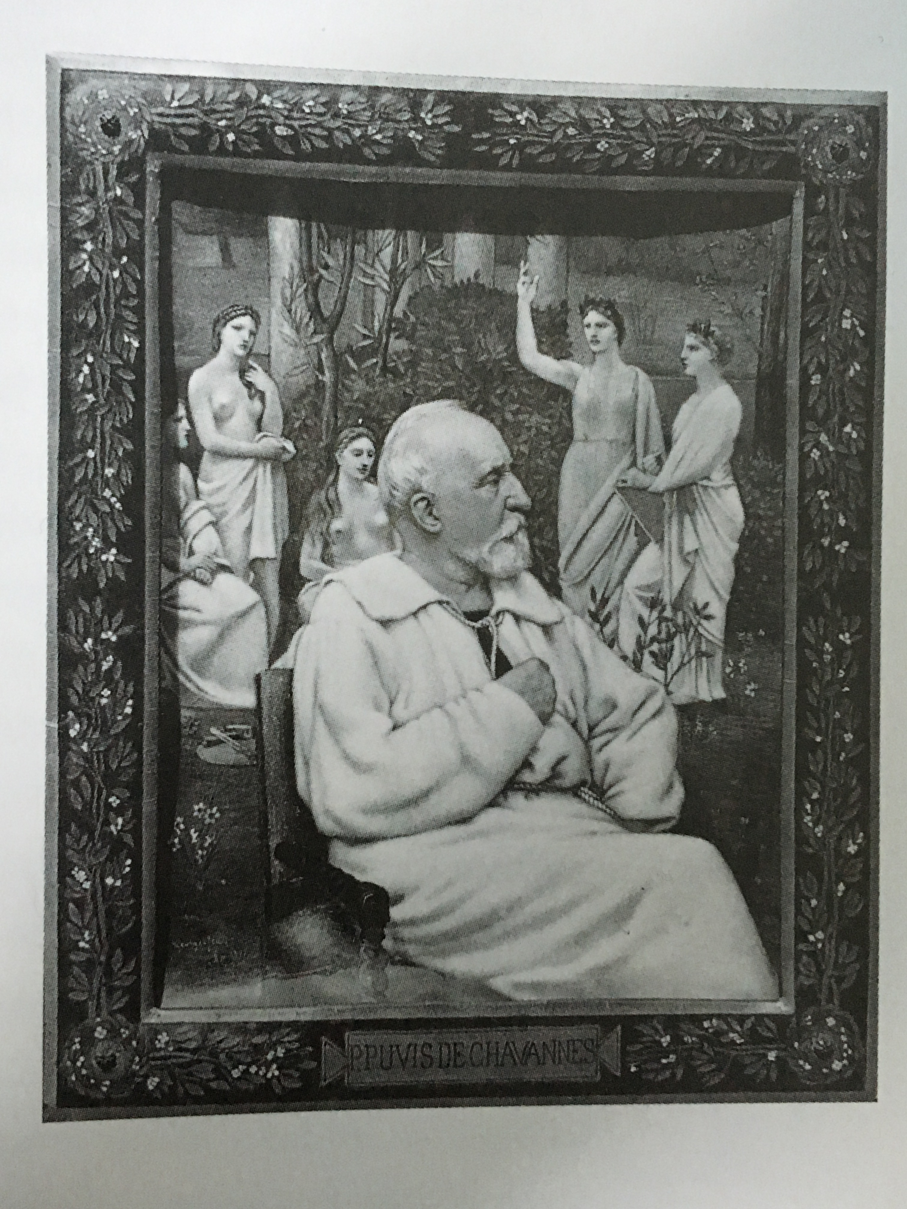 Painted enamel portrait of Pierre Puvis de Chavannes by Georges Jean created in 1895. Currently in the Private collection, France